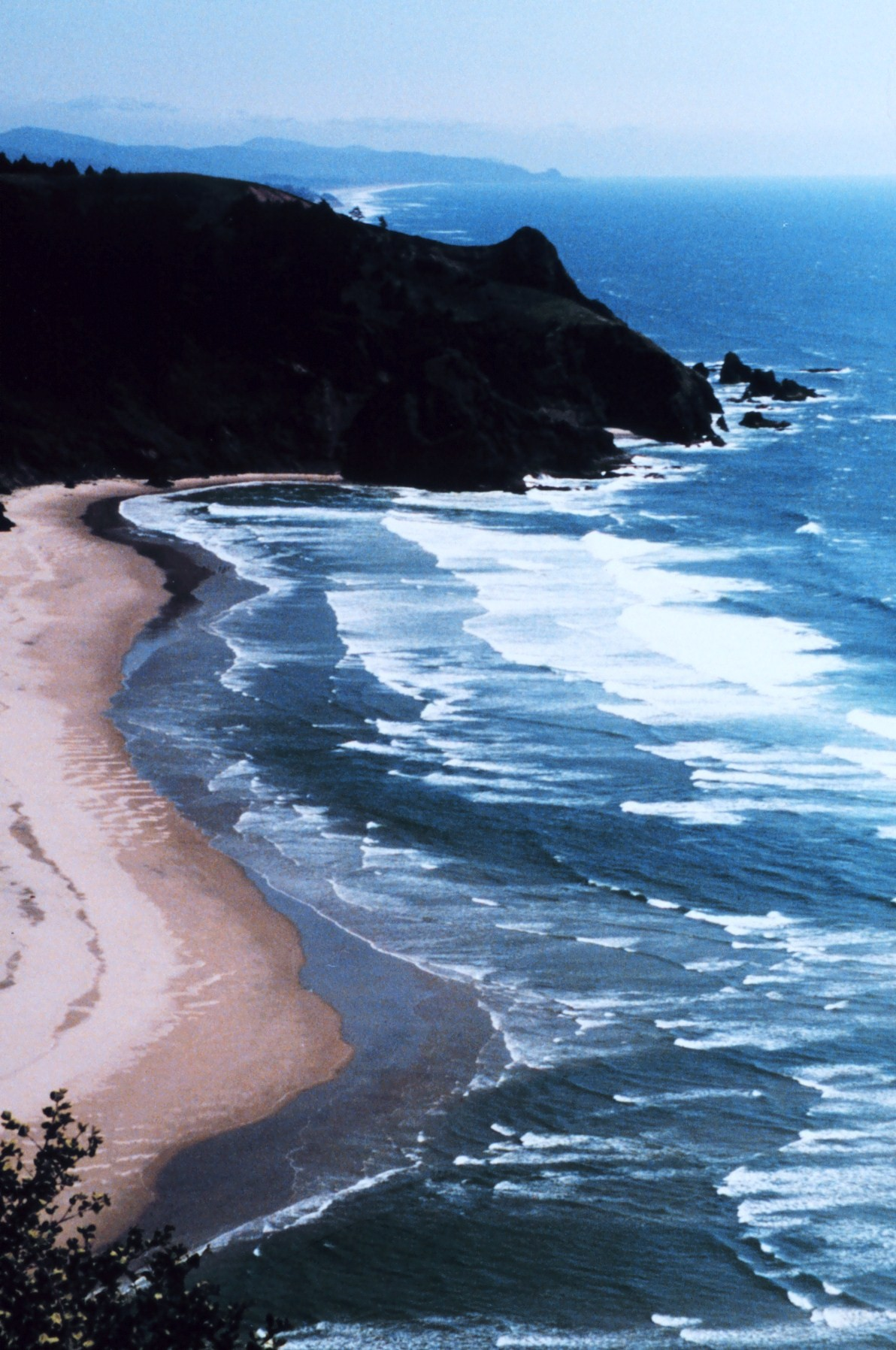 Oregon, Cascade Head near Lincoln City